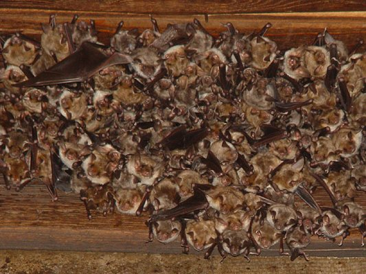 Colony of the Mouse-eared bat (Myotis myotis)